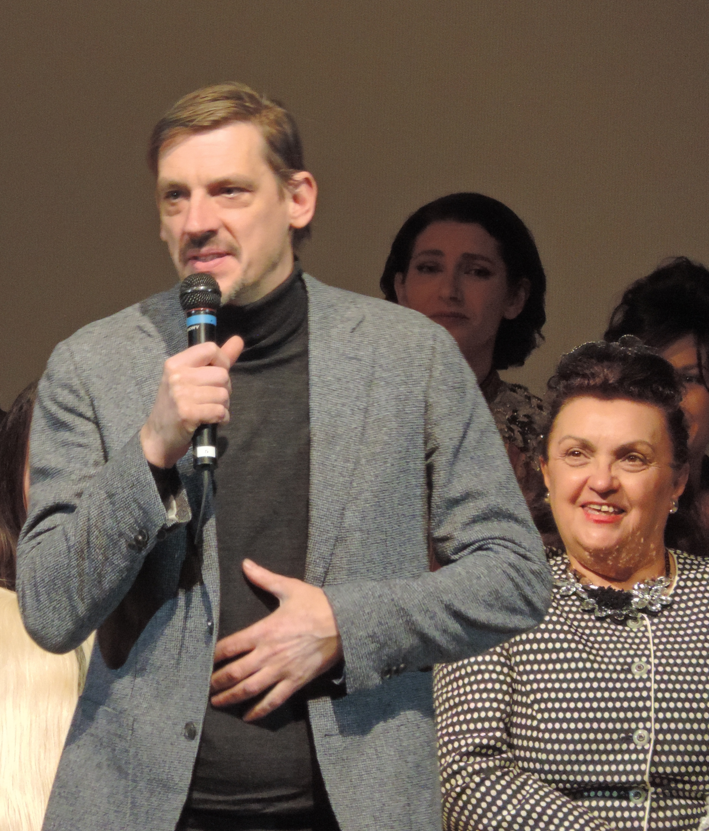 Belgian actor and director Peter Van Den Begin. On the right is the Bulgarian folk singer Svetla Karadzhova. XXI Sofia International Film Fest, Sofia, Bulgaria.